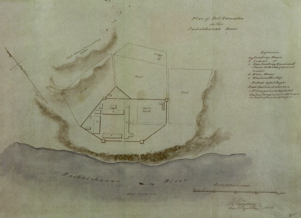 An 1846 watercolor depicting a plan view of Fort Edmonton on the banks of the North Saskatchewan.